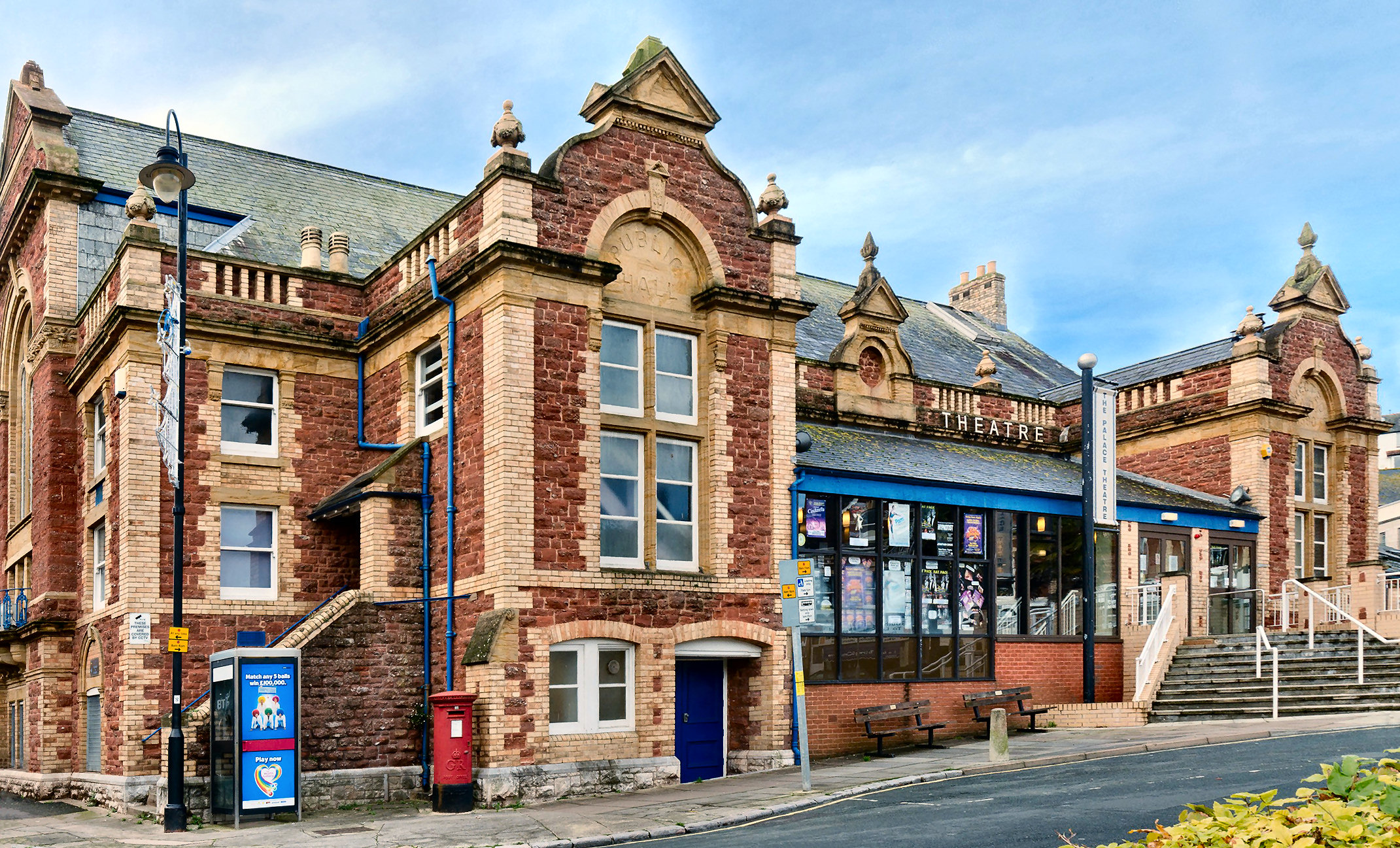 From Outside of the Palace Theatre Paignton